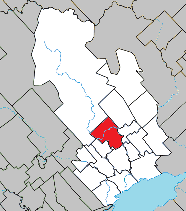 Location of Saint-Paulin, Quebec within Maskinongé Regional County Municipality.